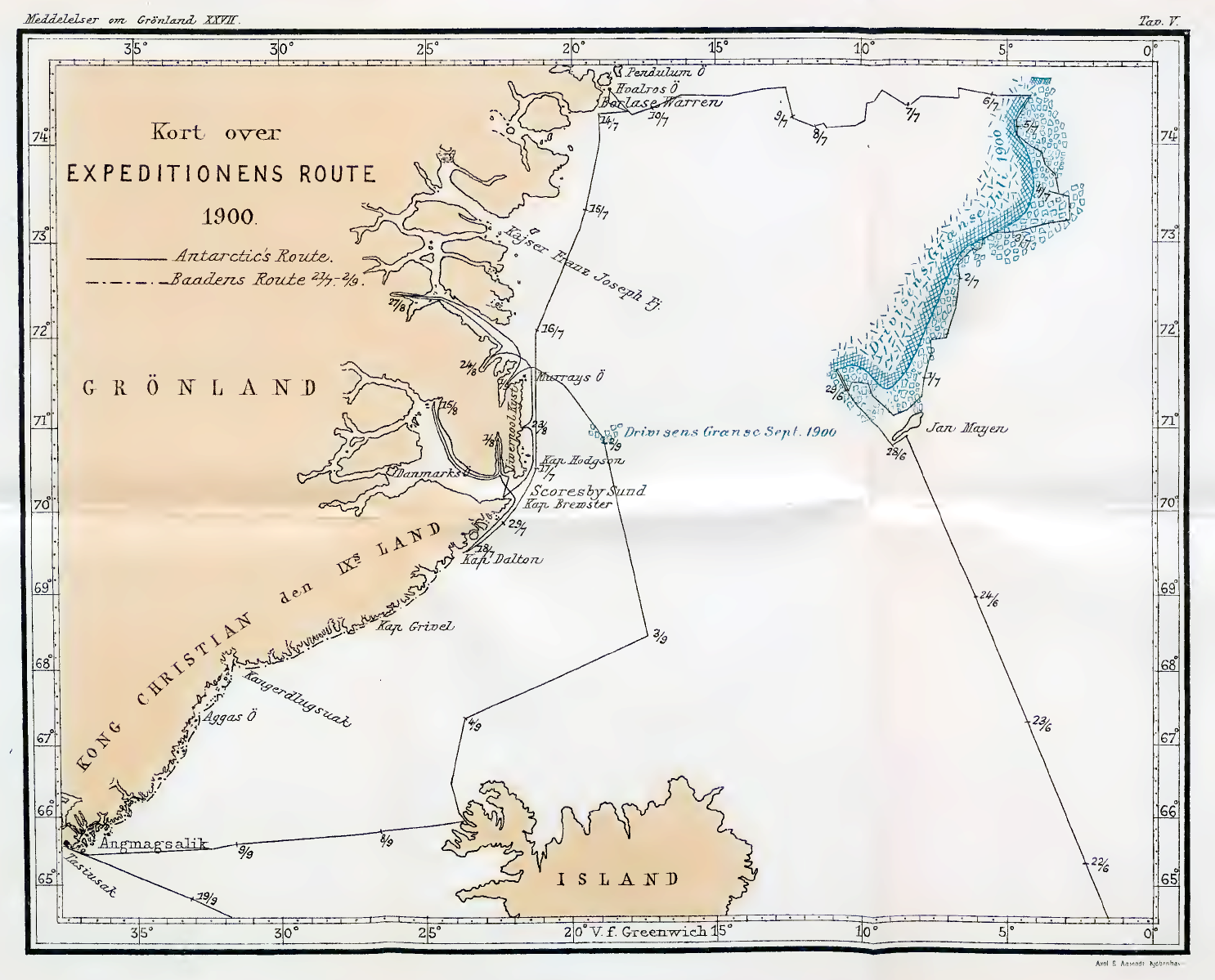 Map showing the route taken by Antarctic during G. C. Amdrup's expedition to Eastern Greenland in 1900